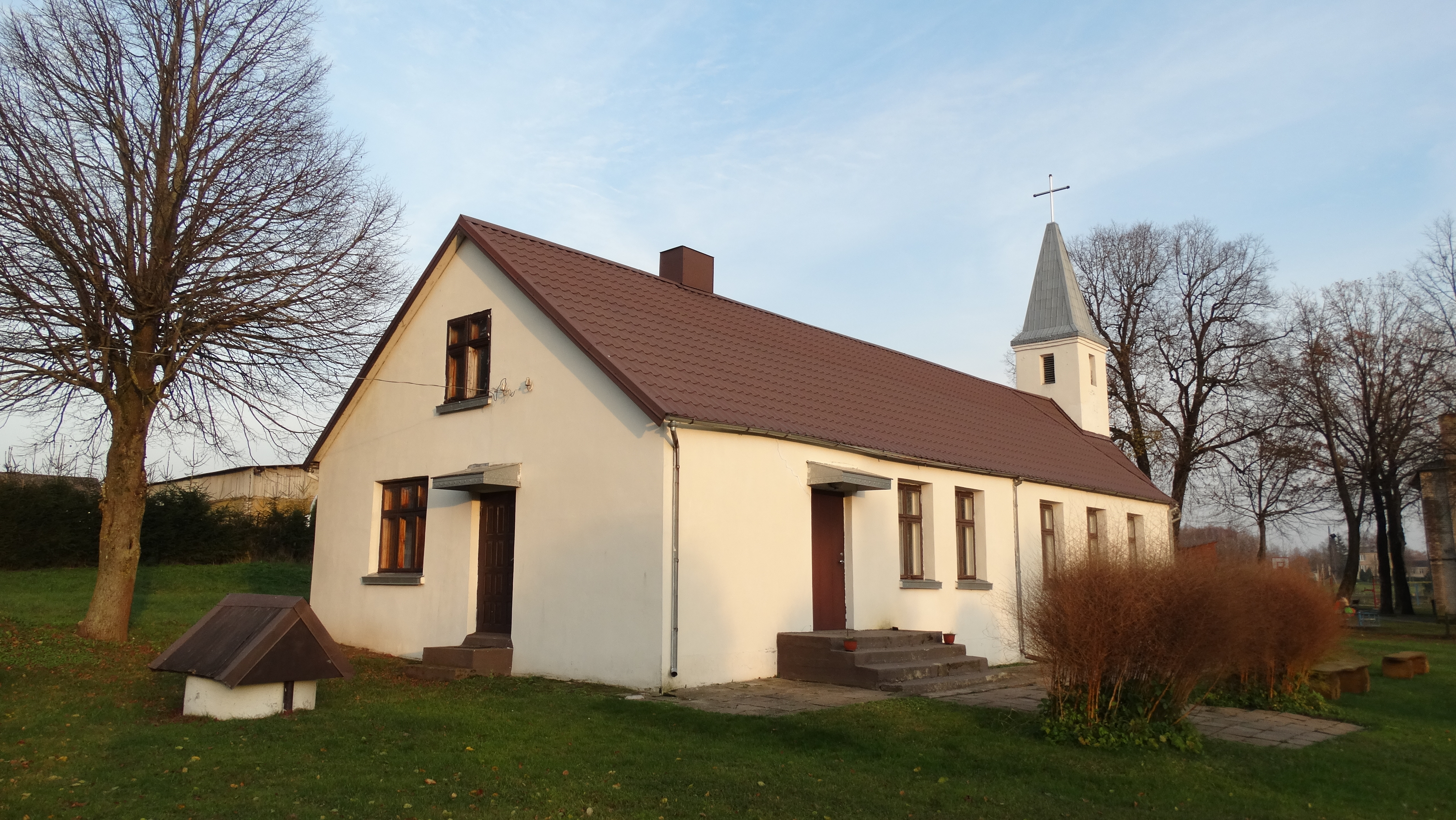 Lutheran Church, Sartininkai, Tauragė district, Lithuania